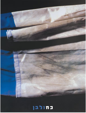 BlueWhite, Silkscreen, 1995